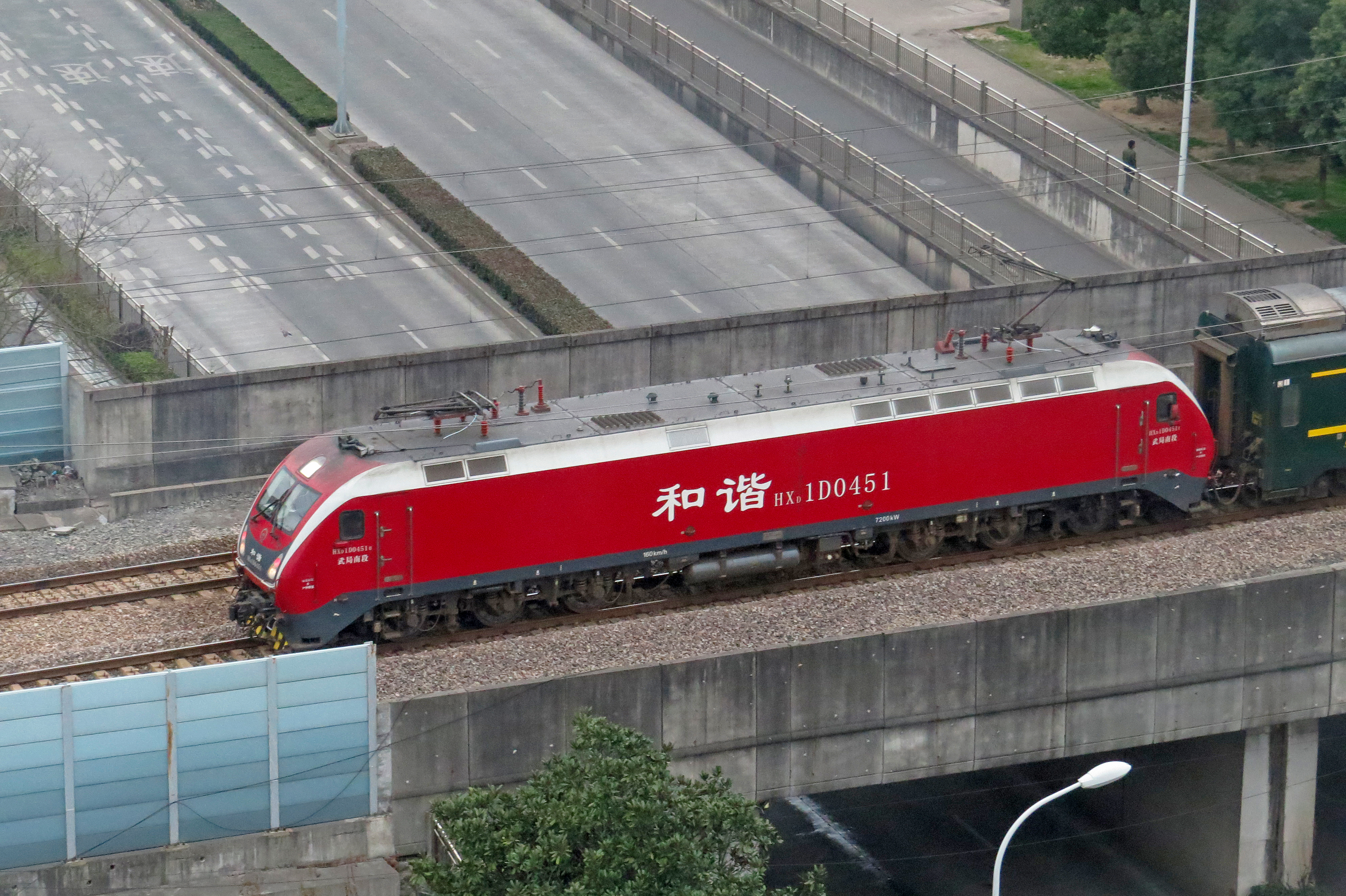 Z31 from Wuchang. Taken from the Grand Building of Nanyuan Hotel, Ningbo.